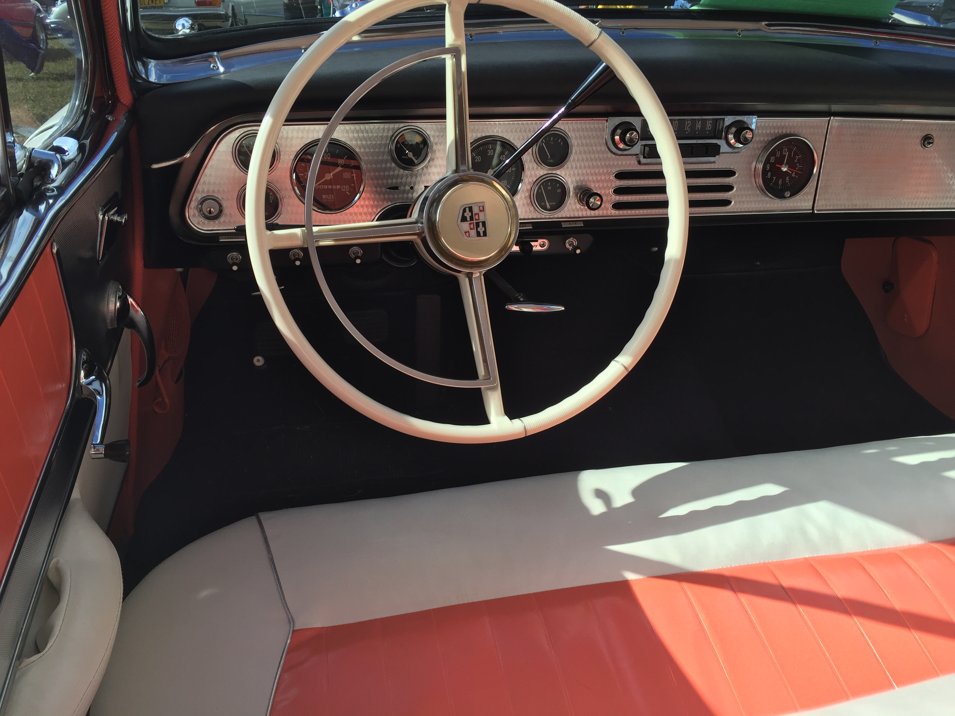 1956 Studebaker Golden Hawk, a two-door hardtop (no center or B pillar) finished in two-tone paint. Picture taken during the 2015 Rockville Antique and Classic Car Show in Maryland.